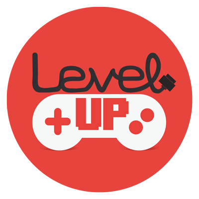 Revista Level Up Costa Rica